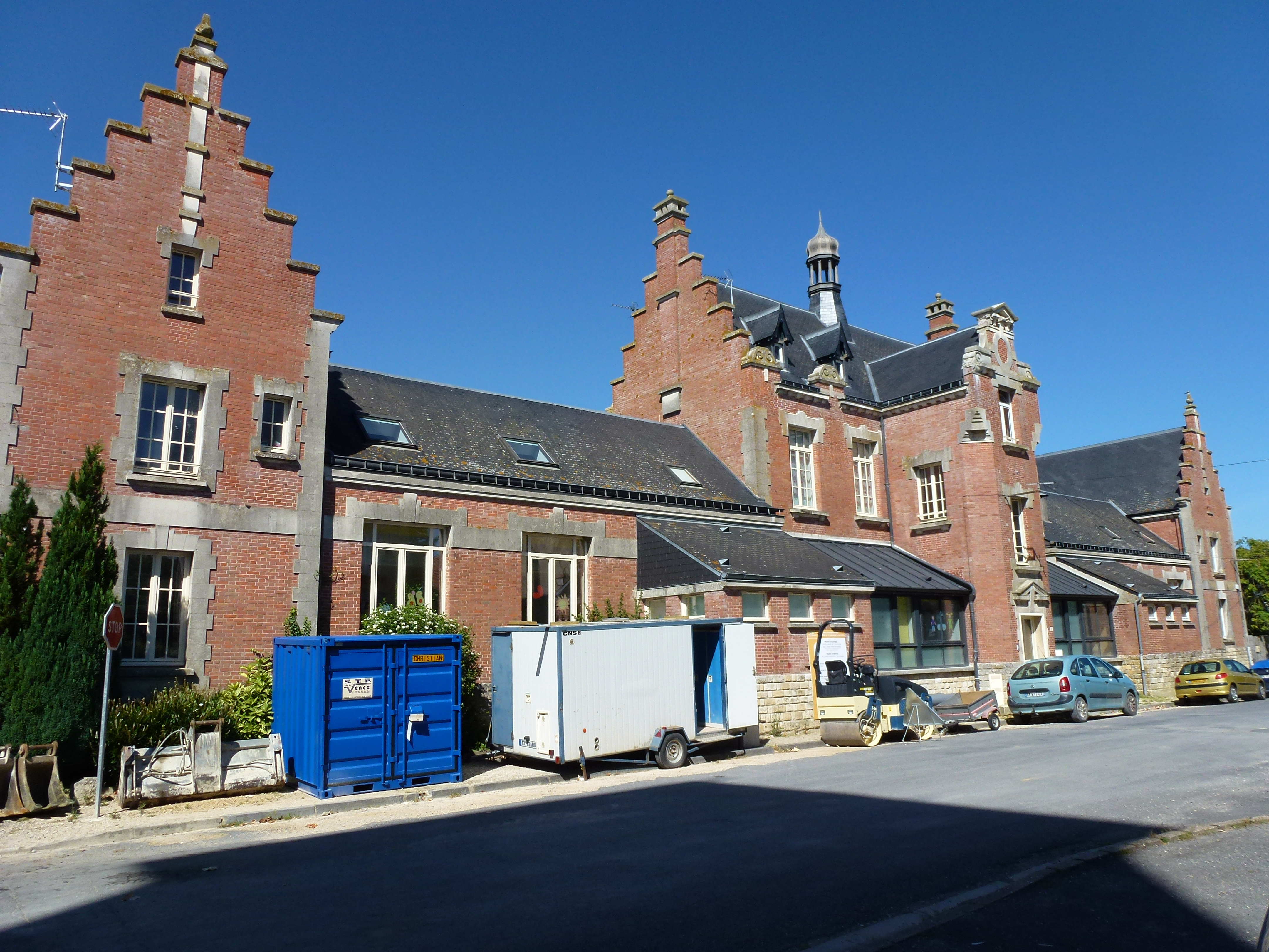 Saulces-Monclin (Ardennes) école